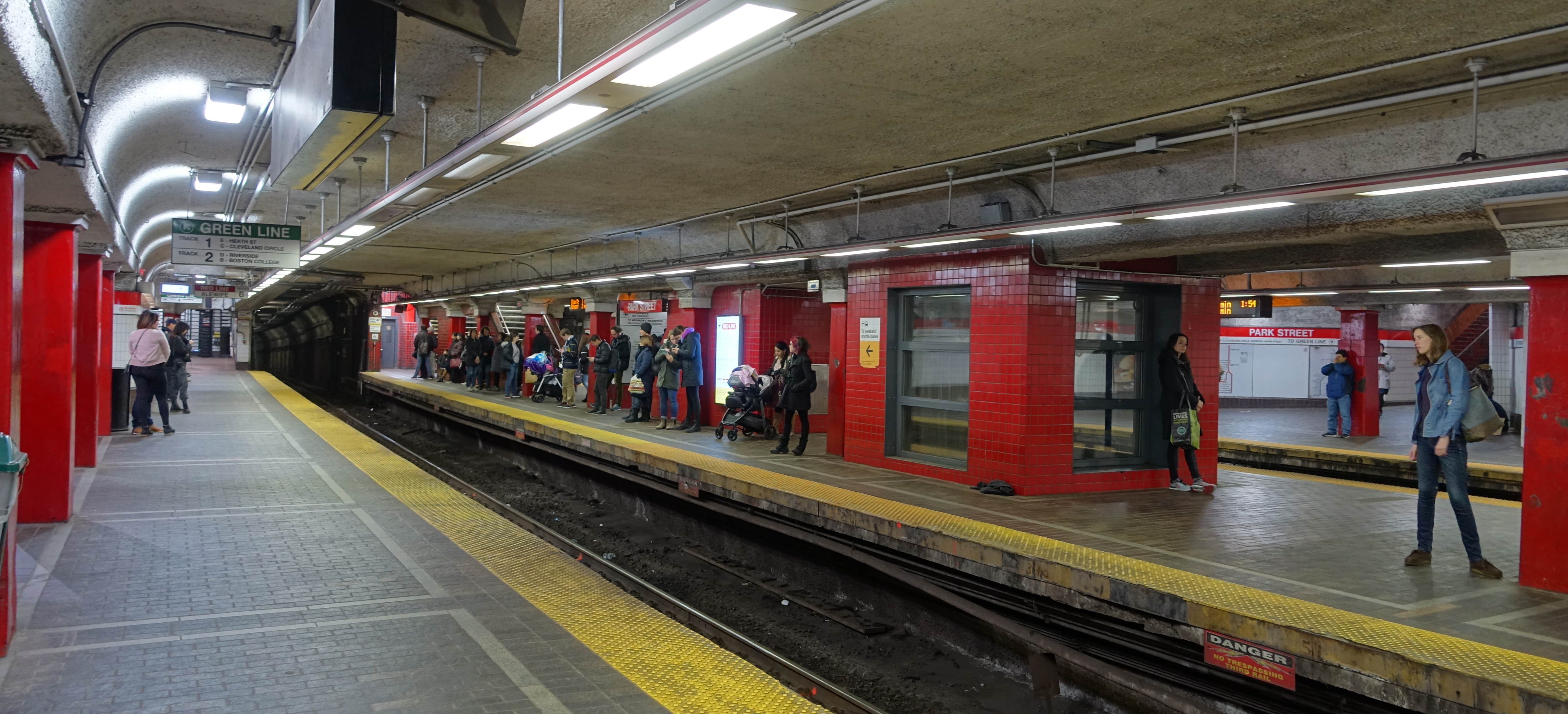 Red Line - Park Street Station - Boston, Massachusetts, USA.